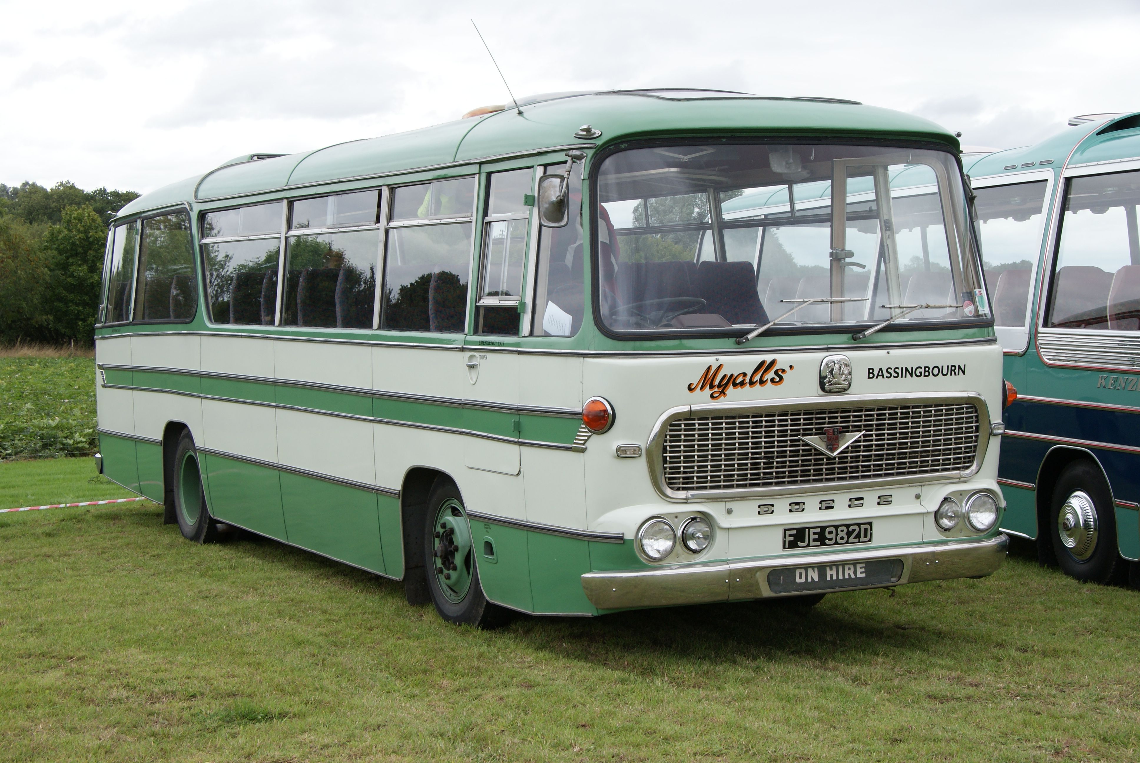 FJE982D-1 290810 CPS